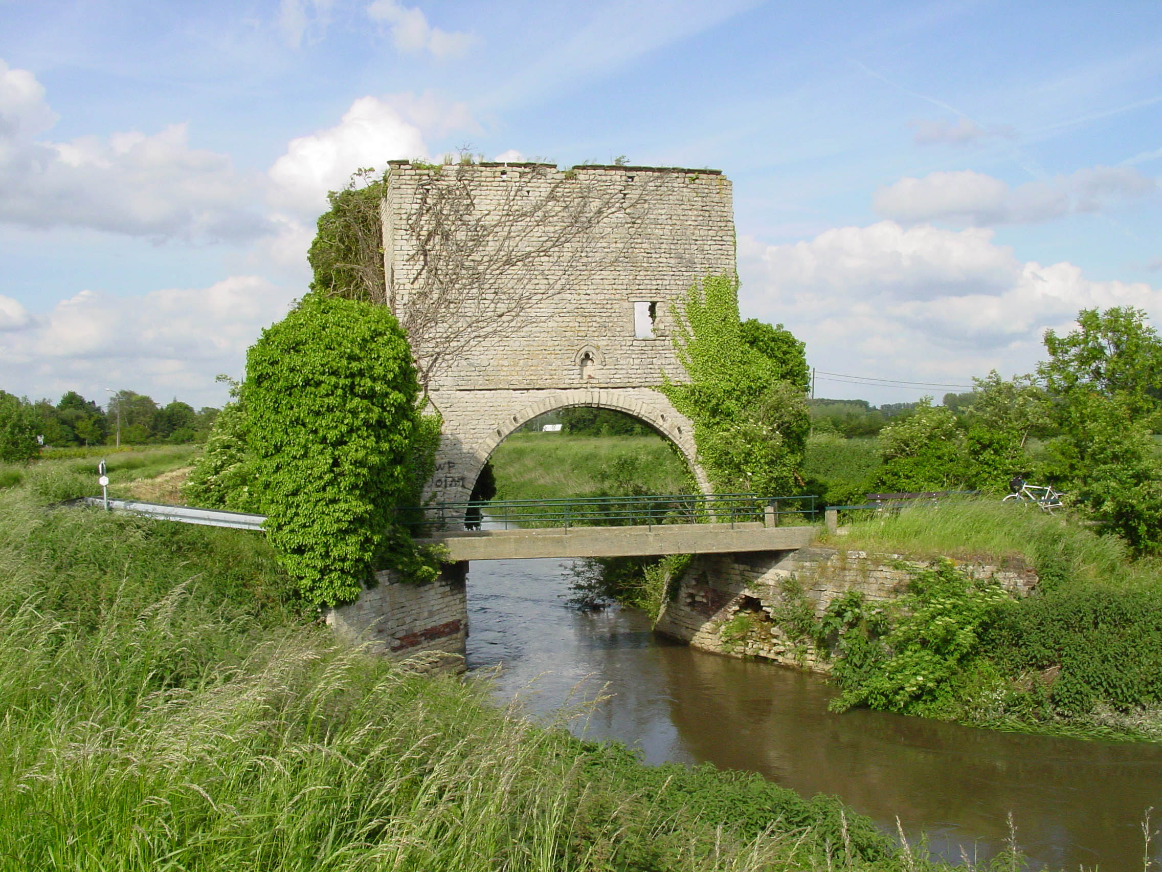 Remains of a sluice tower, quay and watermill in the fields in Weerde, Belgium. Weerde, Zemst, Flemish Brabant, Belgium